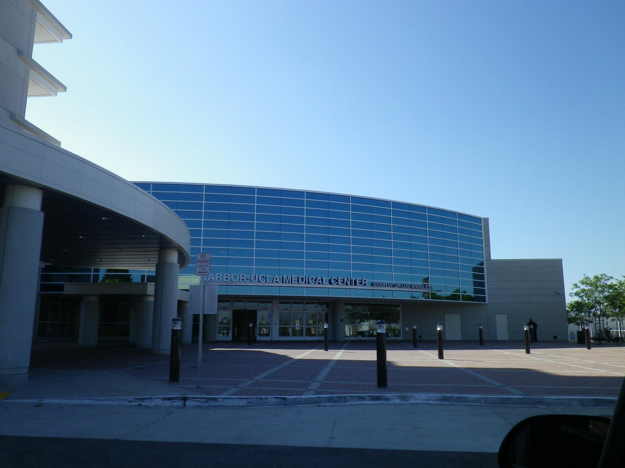 The picture was taken with a Pentax Optio RZ10 camera. Taken on March 28, 2015.